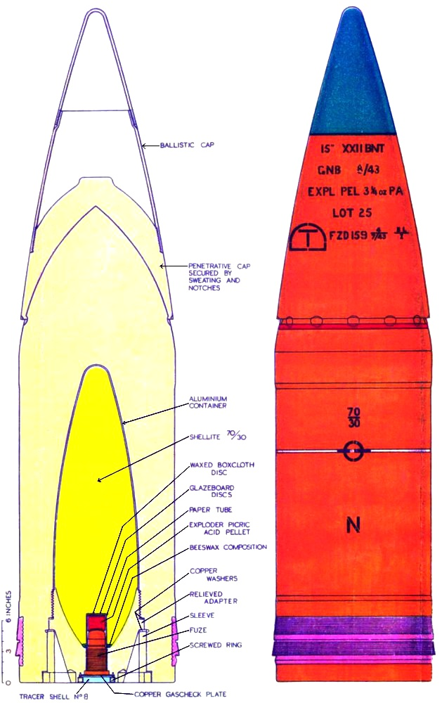 Diagram of British Capped AP (Armour-Piercing) Shell with Ballistic Cap, Mk XXII BNT, 1943, for BL 15 inch Mk I naval gun. Explanation of markings on shell, top to bottom ,left to right :- 15" XXII : 15 inch Mark XXII shell. B denotes 6 c.r. head (the dimensions of the ballistic cap) NT denotes the shell has a night tracer in the base. Hence the base fuze is not flush with the shell base, but is recessed into the shell. GNB denotes the filling contractor's initial. 8/43 denotes date shell filled. EXPL PEL 3 1/4 oz PA : denotes the exploder is Picric Acid, 3 1/4 oz. T inside the semi-circle segment indicates type of tracer shell has fitted. FZD159 denotes serial number of fuze is 159. 4 above 7/43 applies to the fuze : denotes lot number 4, filled July 1943. BL/I denotes the fuze maker's initial and mark of fuze. Red band denotes shell is filled. 70/30 denotes Shellite filling makeup : 70% Lyddite, 30% dinitrophenol. The circle on the band around the middle of the shell indicates centre of gravity. N denotes intended for Naval use.